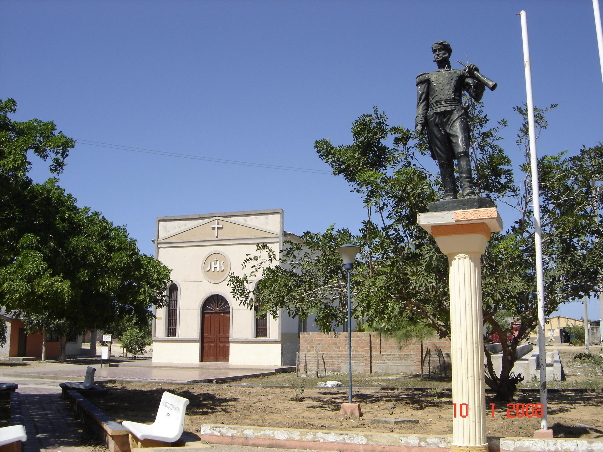 Camarones photo